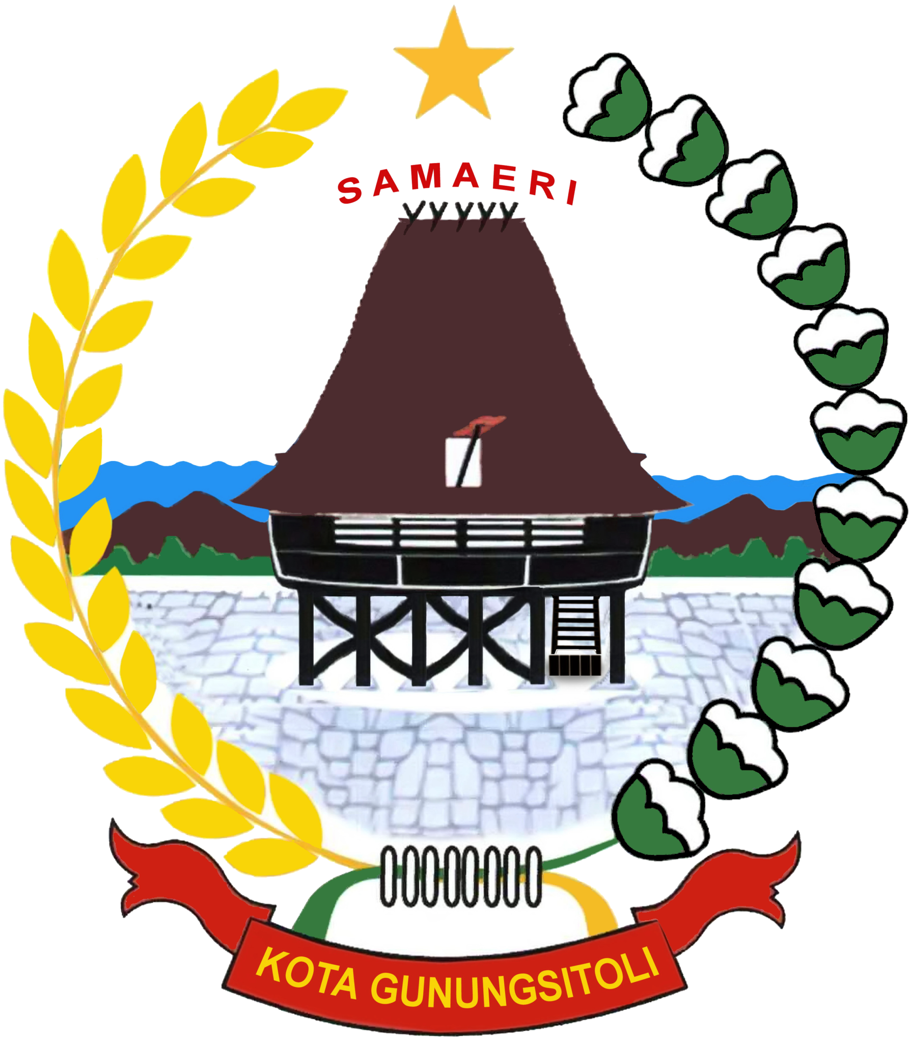 Gunungsitoli Logo